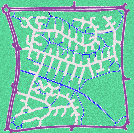 One sector (Heelands) of the Milton Keynes town that is enclosed by the 1 km grid of main roads. The road network within the sector uses cul-de-sac streets complemented by foot and bike paths.